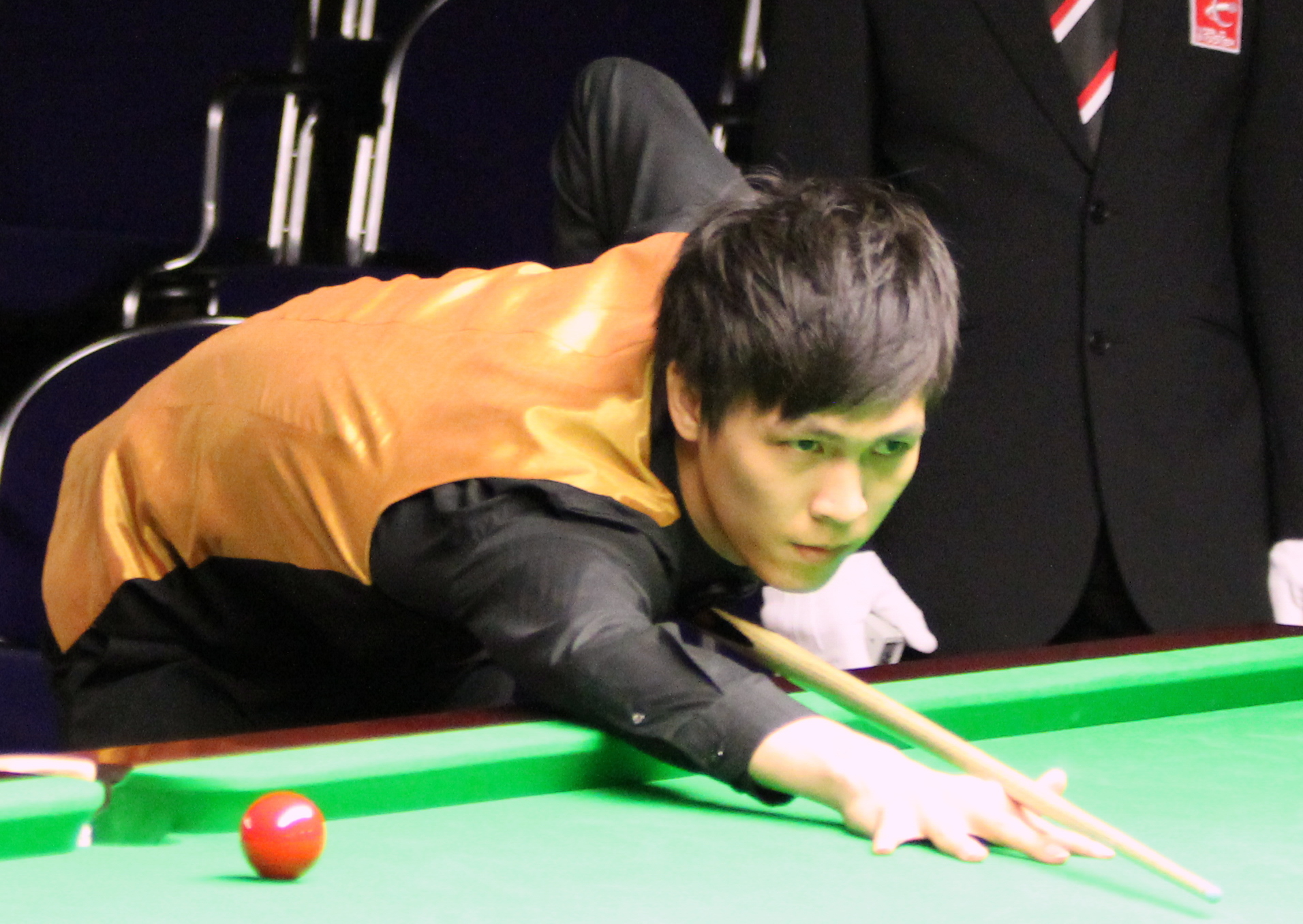 Thepchaiya Un-Nooh beim Paul Hunter Classic 2012